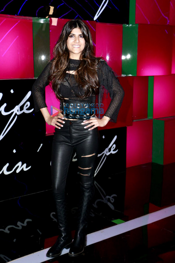 Ananya Birla, pictured in 2016